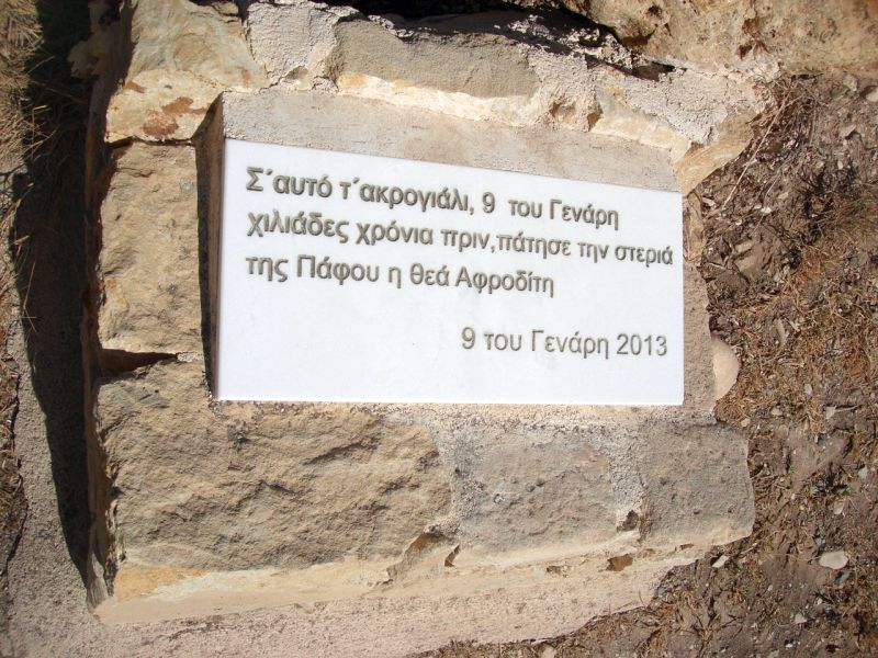 Memorial sign birthplace of Aphrodite (Cyprus)